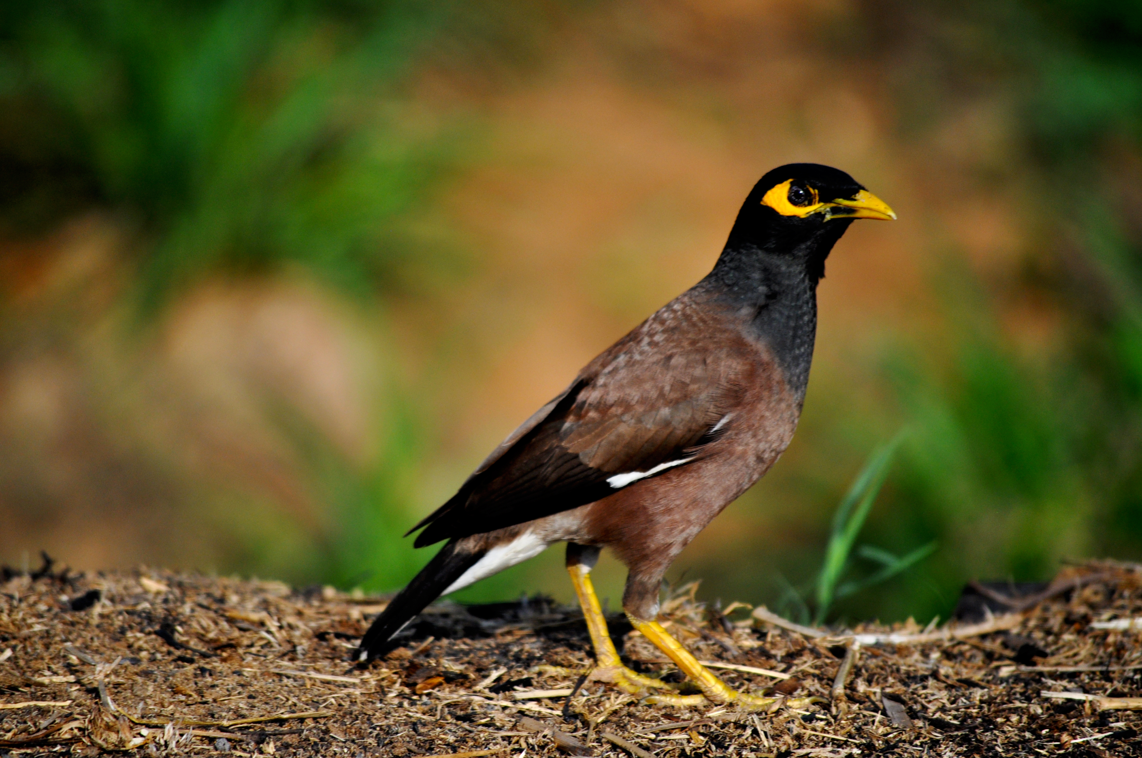 Indian Myna Acridotheres tristis, Kokkrebellur, India.